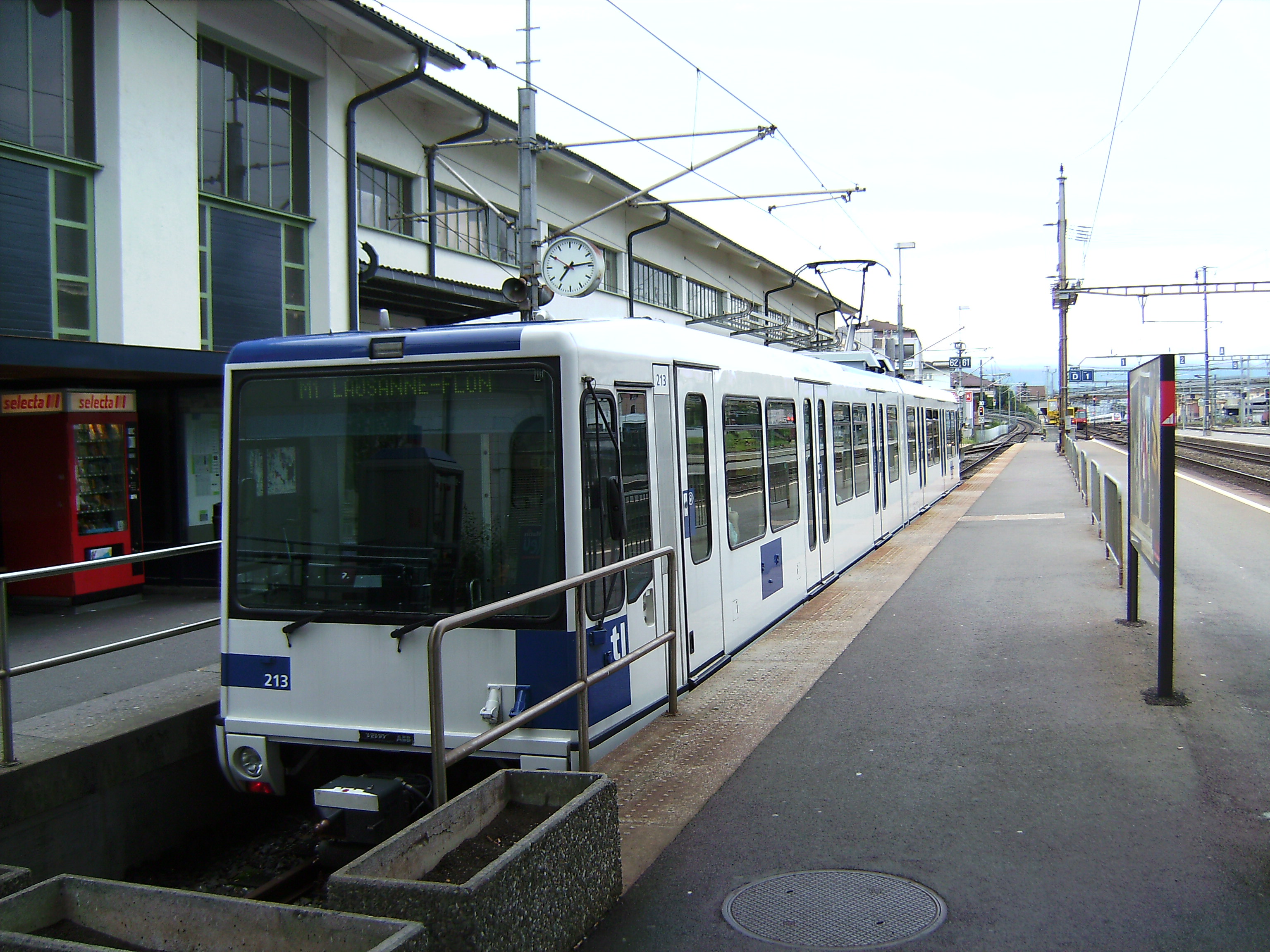 Train in the Renens CFF station of Lausanne metro.